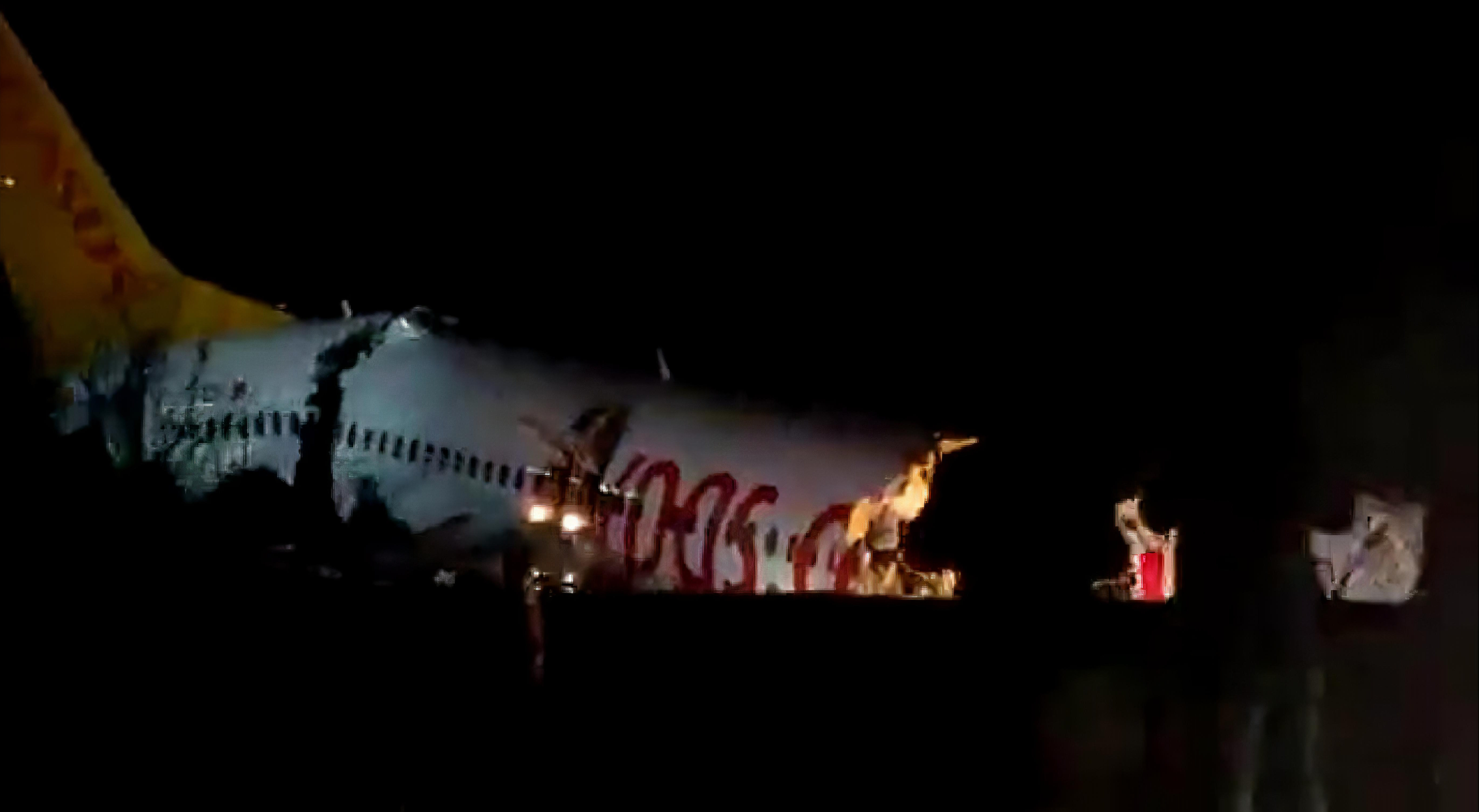 Pegasus Airlines PC2193 crash site photo